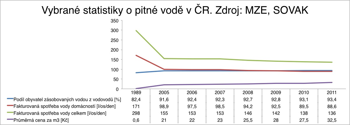 Drinkin water stats: Czech Republic 1989, 2005-2011